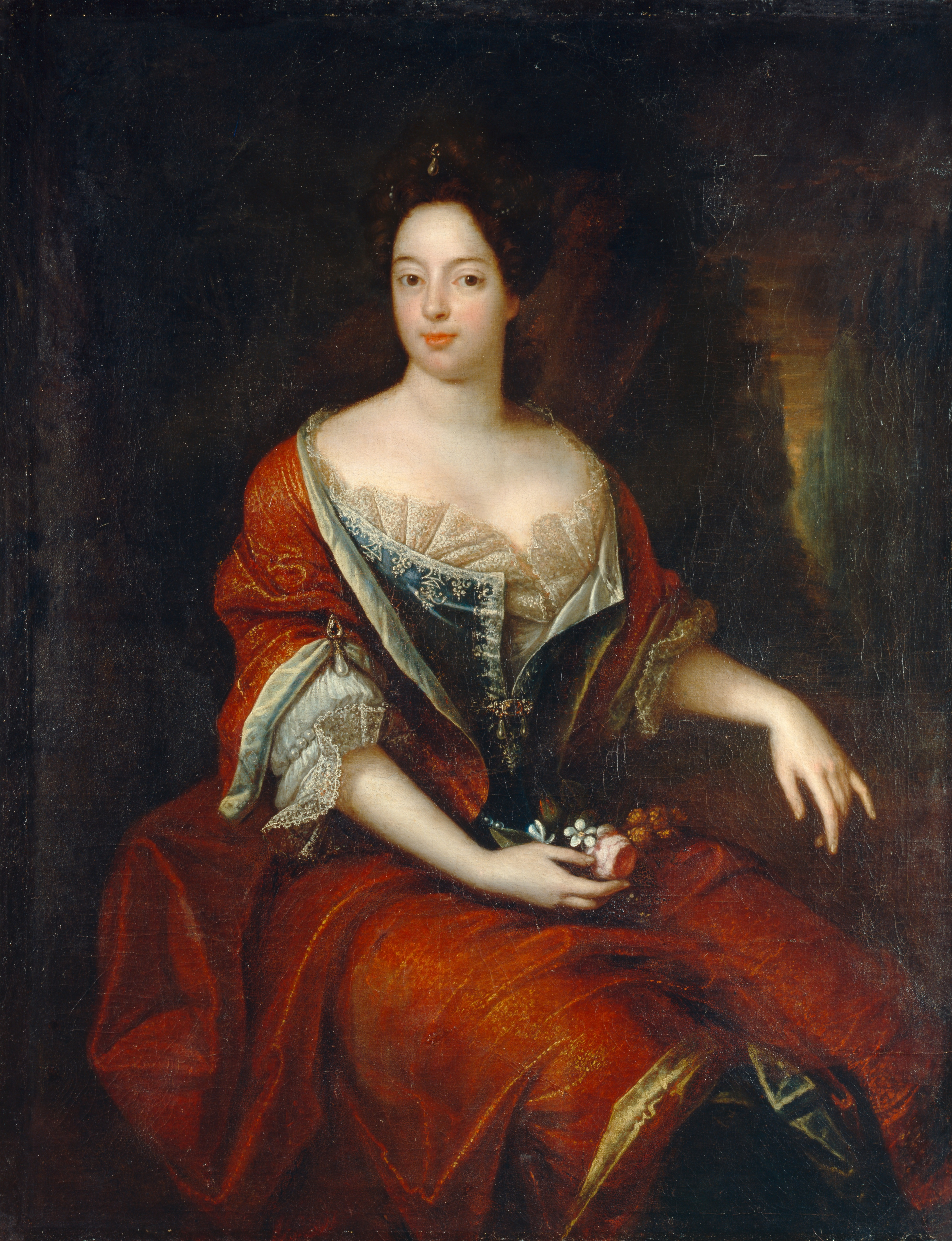 Portrait of Sophia Charlotte of Hanover (1668-1705)